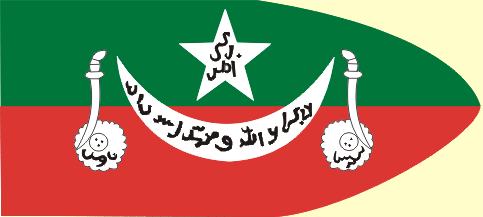 Flag of the Khanate of Kelat (Kalat, Khalat, Khelat) 1680-1948